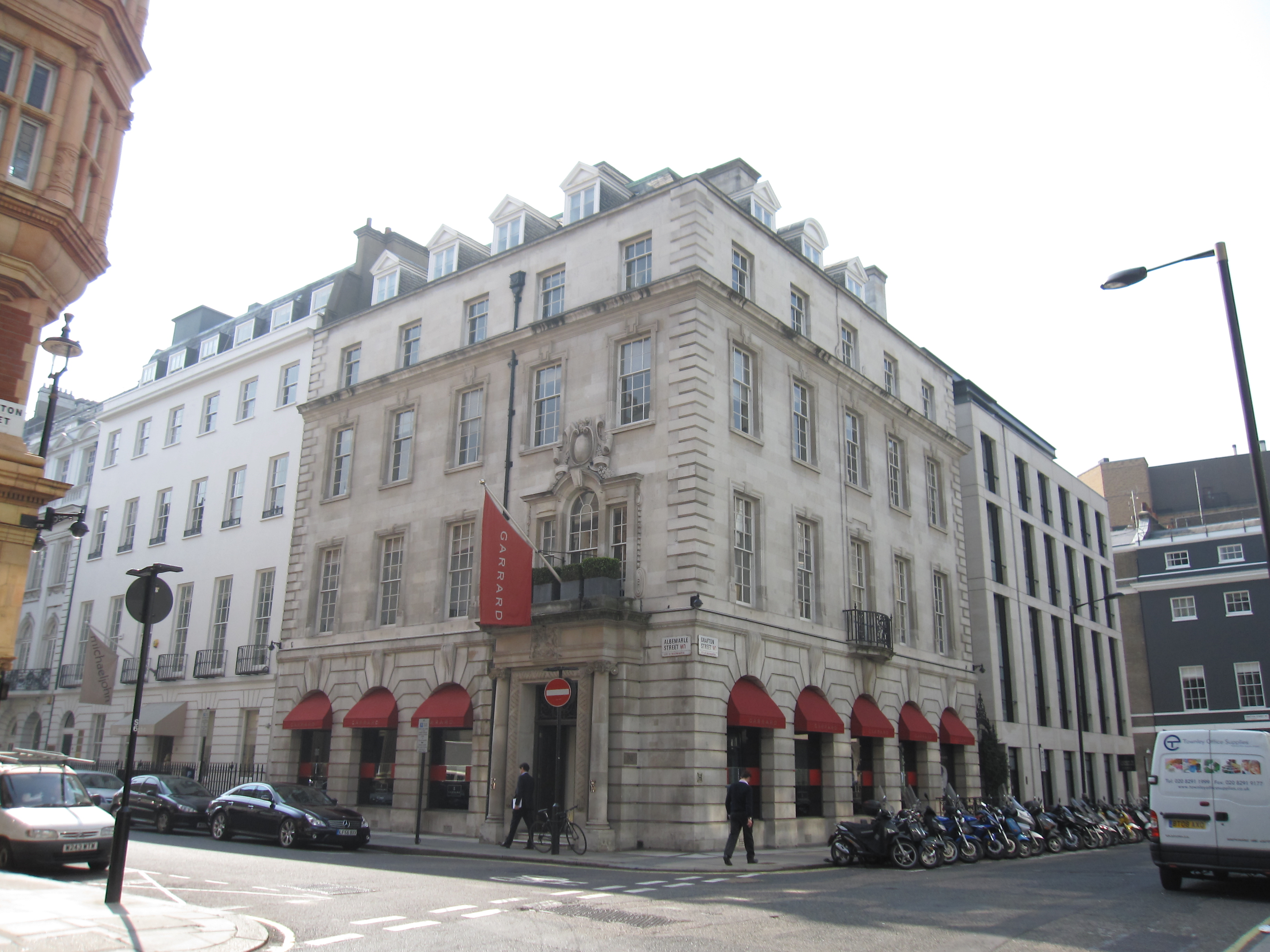 Garrard & Co house in London.